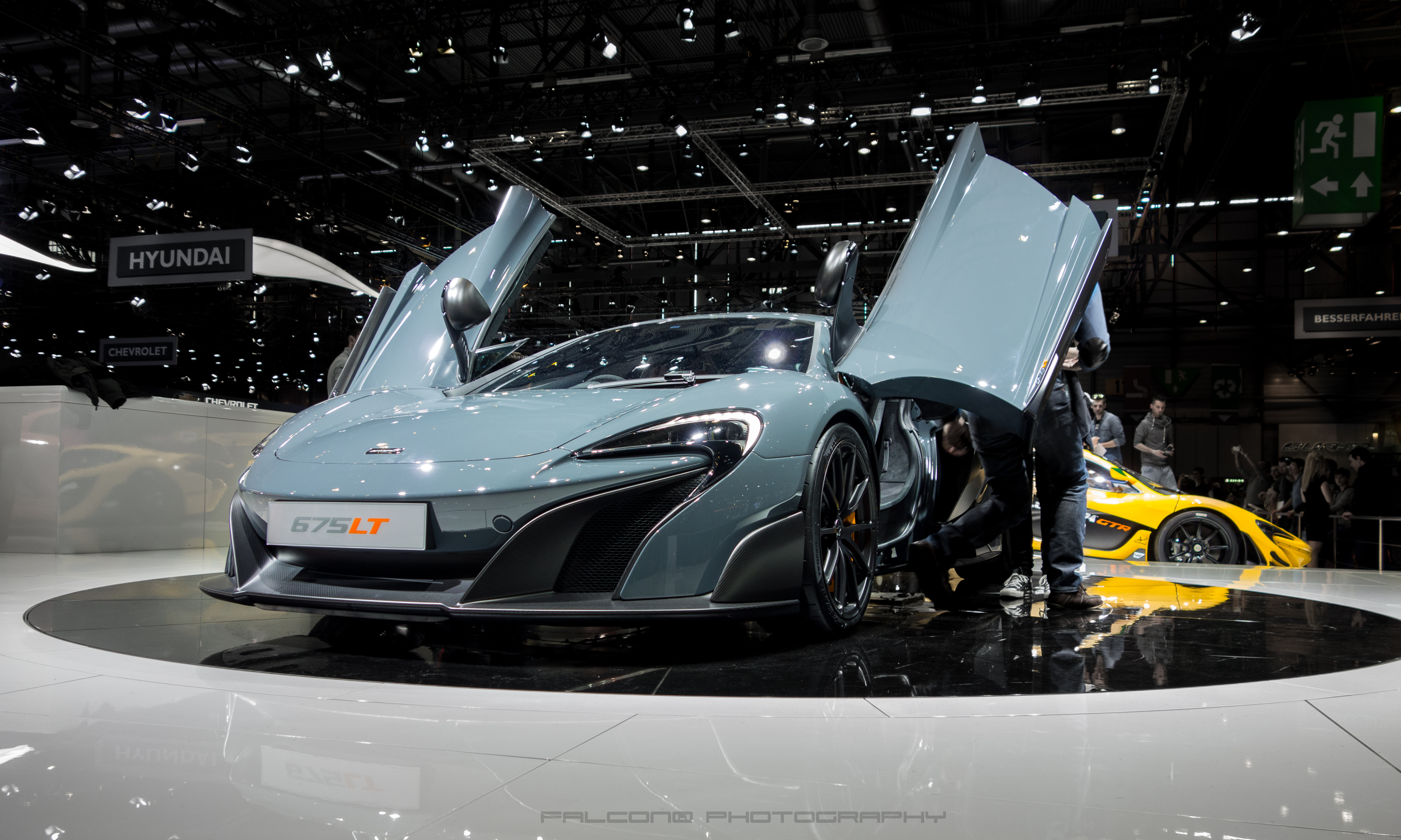 M838T engine 666hp 1,230 kg 0-100 in 2.9sec $345,000